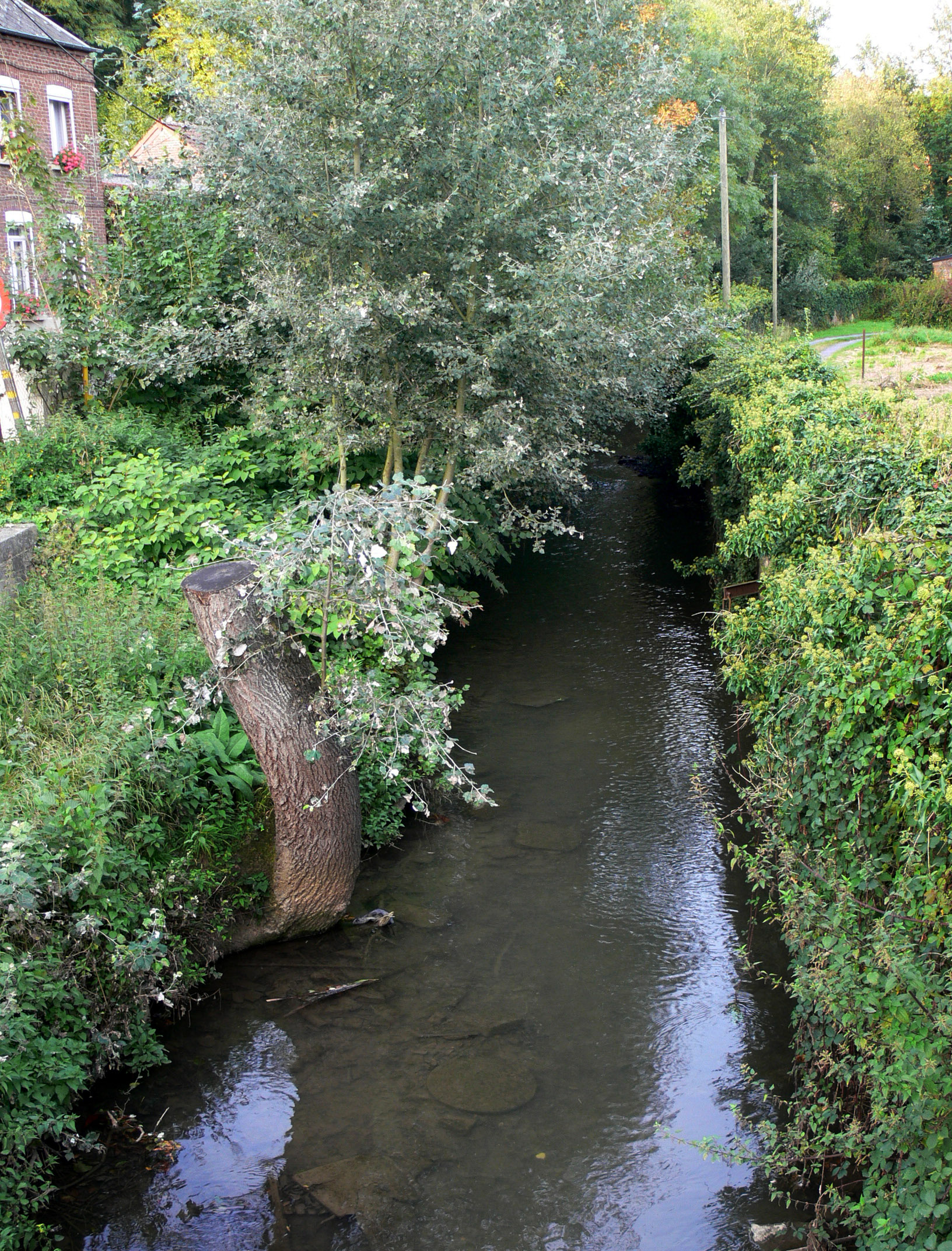 river Hogneau, north of france